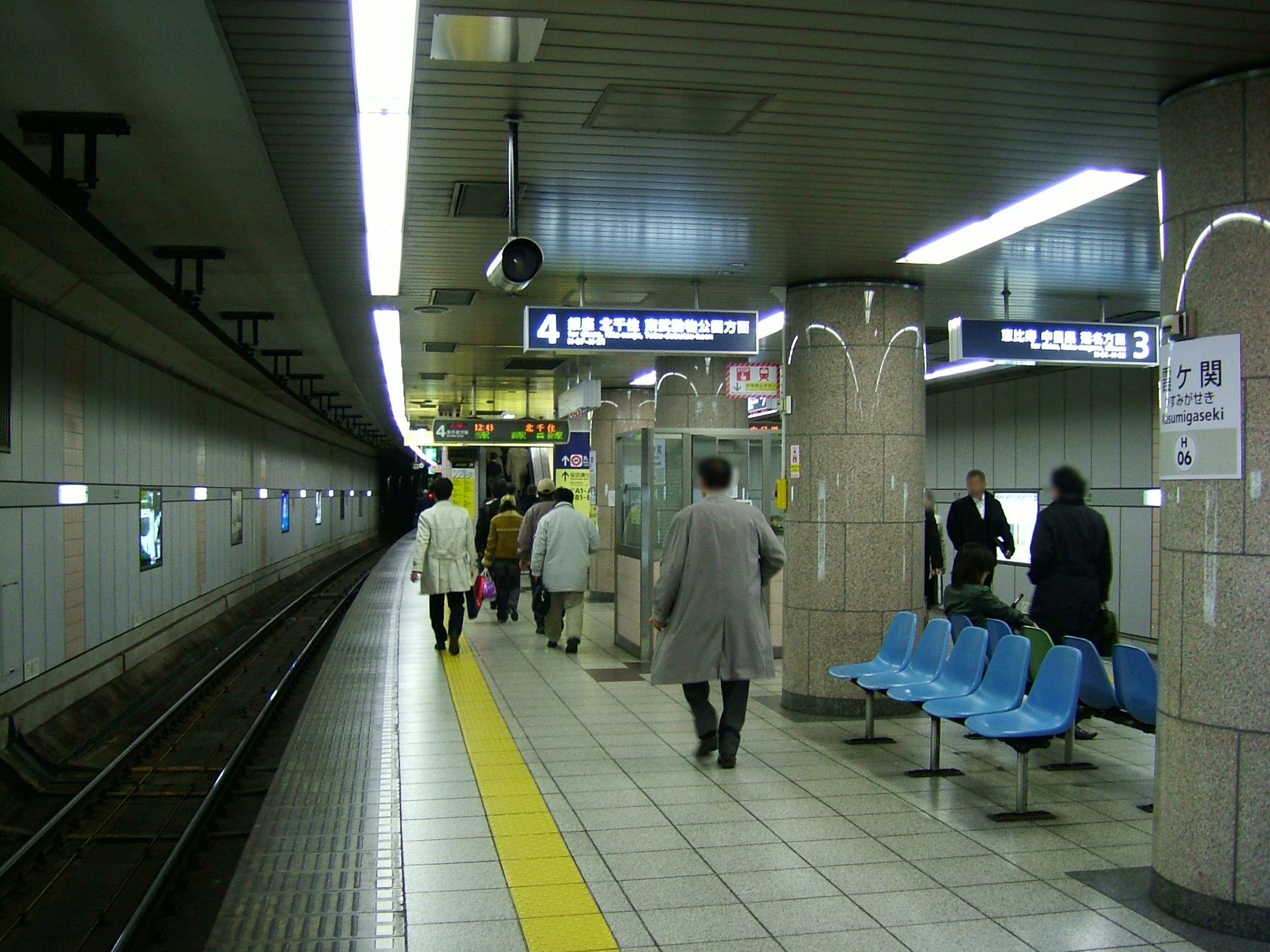 The platform at Kasumigaseki Station on the Tokyo Metro Hibiya Line